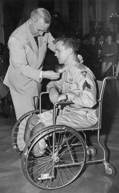 Photograph of Ralph G. Neppel receiving the Medal of Honor from President Harry S. Truman. Photograph published without photo credit in newspapers including The Des Moines Tribune (August 23, 1945)